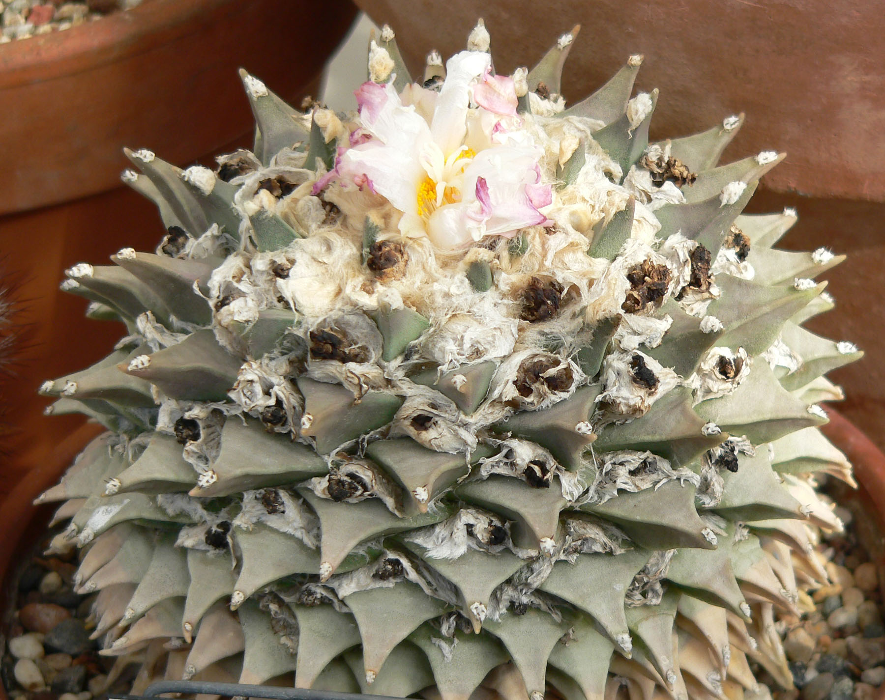 Ariocarpus retusus at the University of California Botanical Garden, Berkeley, California